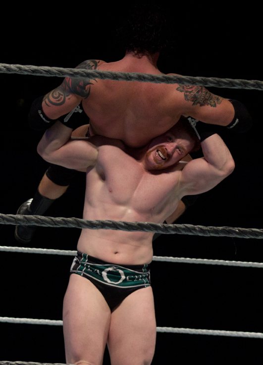 Sheamus attempts his High Cross powerbomb on Wade Barrett. Taken January 7, 2012 during a WWE SmackDown live event in Montgomery, Alabama.